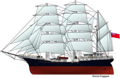 Drawing of the British sailing ship Tenacious